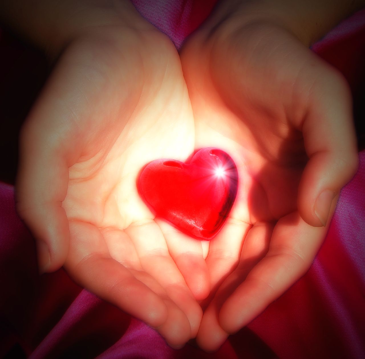 A heart being used as a symbol of love. Photo modified by author using Photoshop.